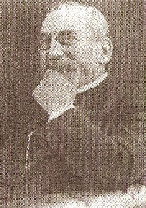 Karl Julius Rudolf von Bitter (1846-1914), Kronsyndikus, Member of prussian House of Lords (Preußisches Herrenhaus)